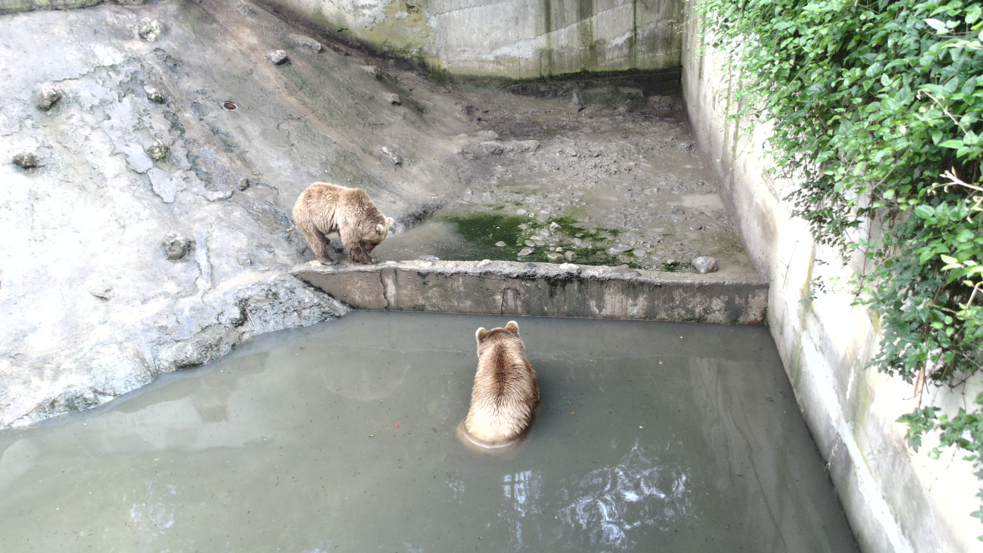 Brown bear in Lovech zoo